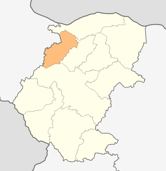 Map of Brusartsi municipality, Montana Province